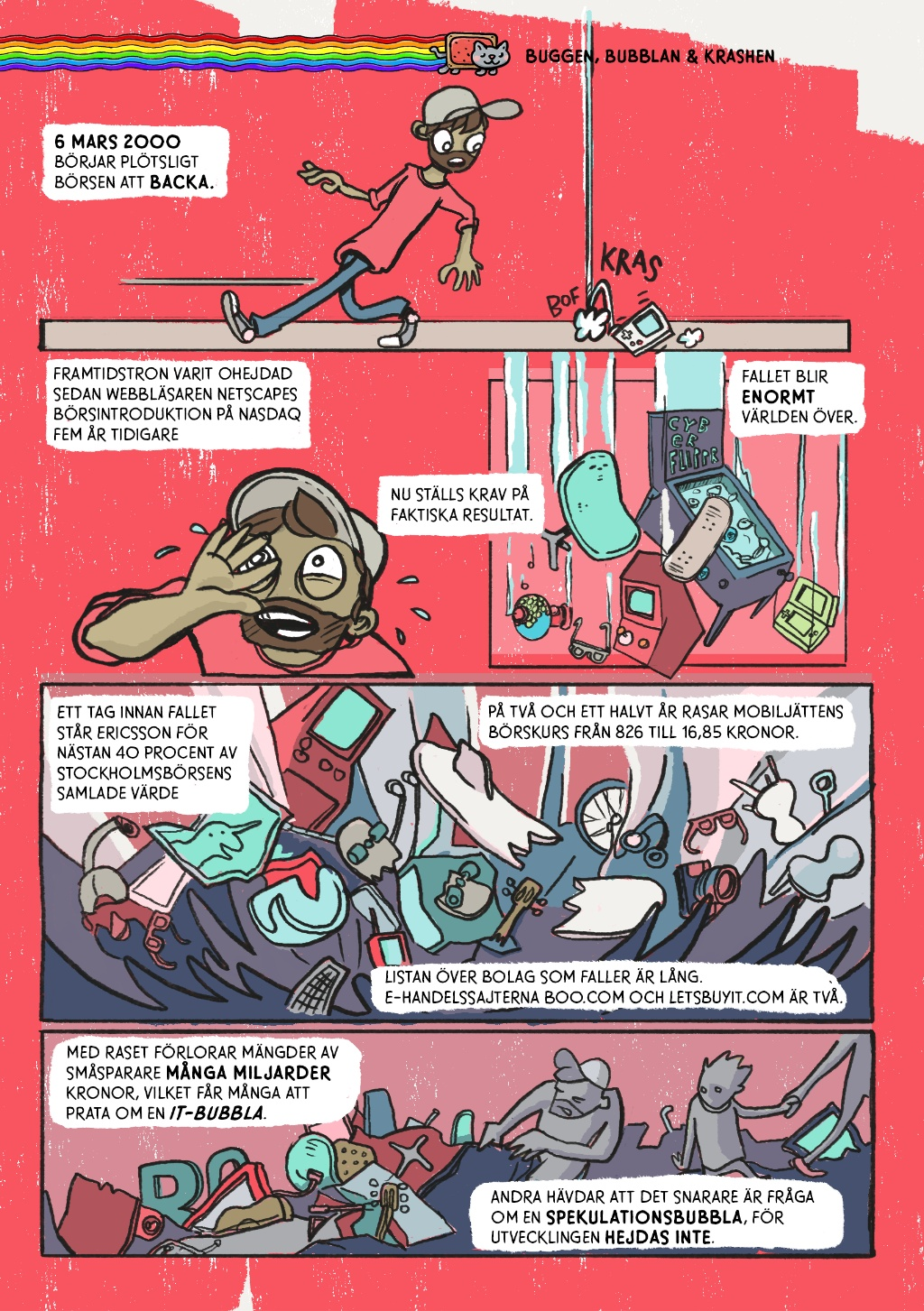 The illustrated history of Internet. A comic created for children and youths illustrated by Jesper Wallerborg for Internetmuseum.